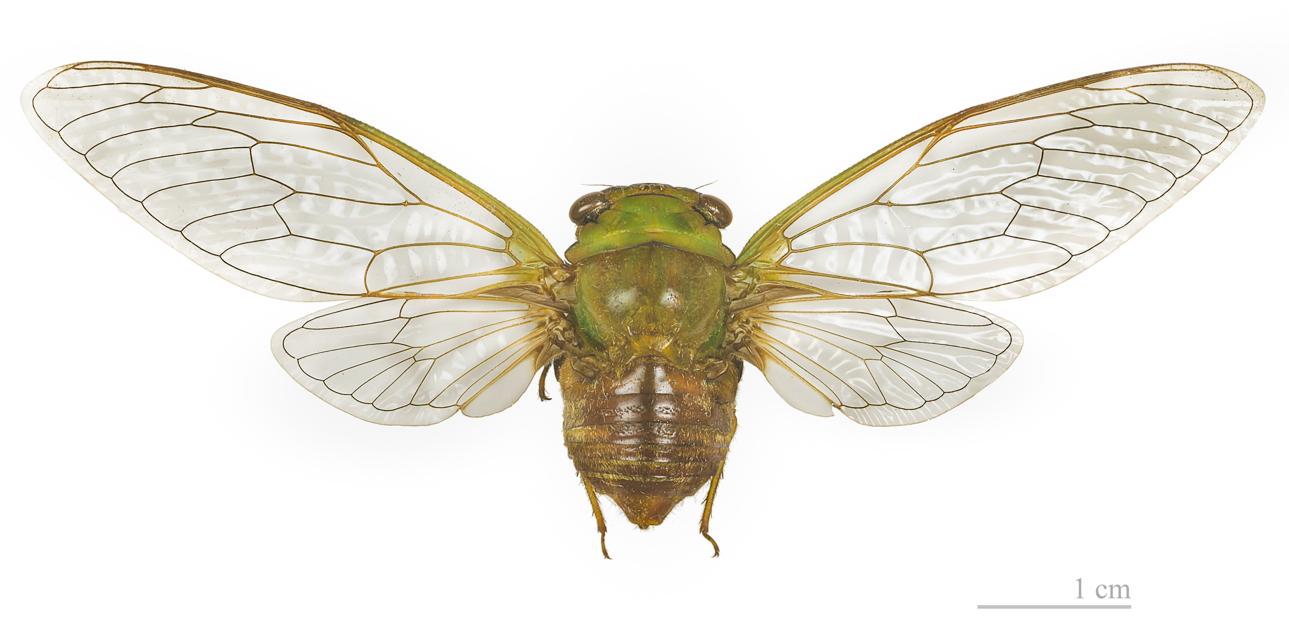 Flight position - Dorsal side Locality : crossroads, "Piste Risquetout, route Saut Léodate", Montsinéry, French Guianna.